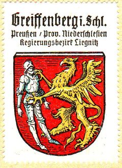 Dawny herb Gryfowa Śląskiego na przedwojennym znaczku pocztowym